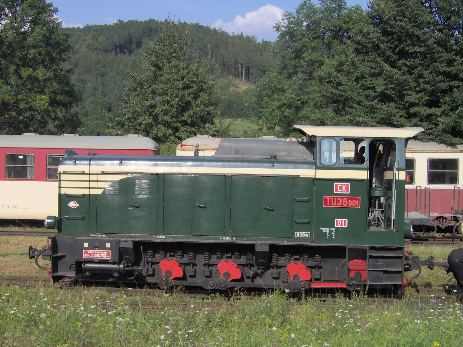 Narrow gauge historical diesel locomotive TU 38.001, Třemešná, Czech Republic